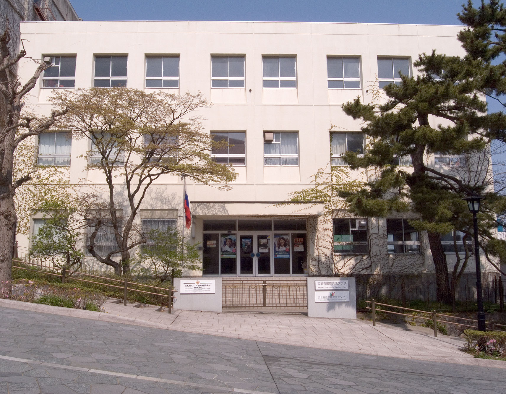 Russian consulate in Hakodate, Hokkaido, Japan